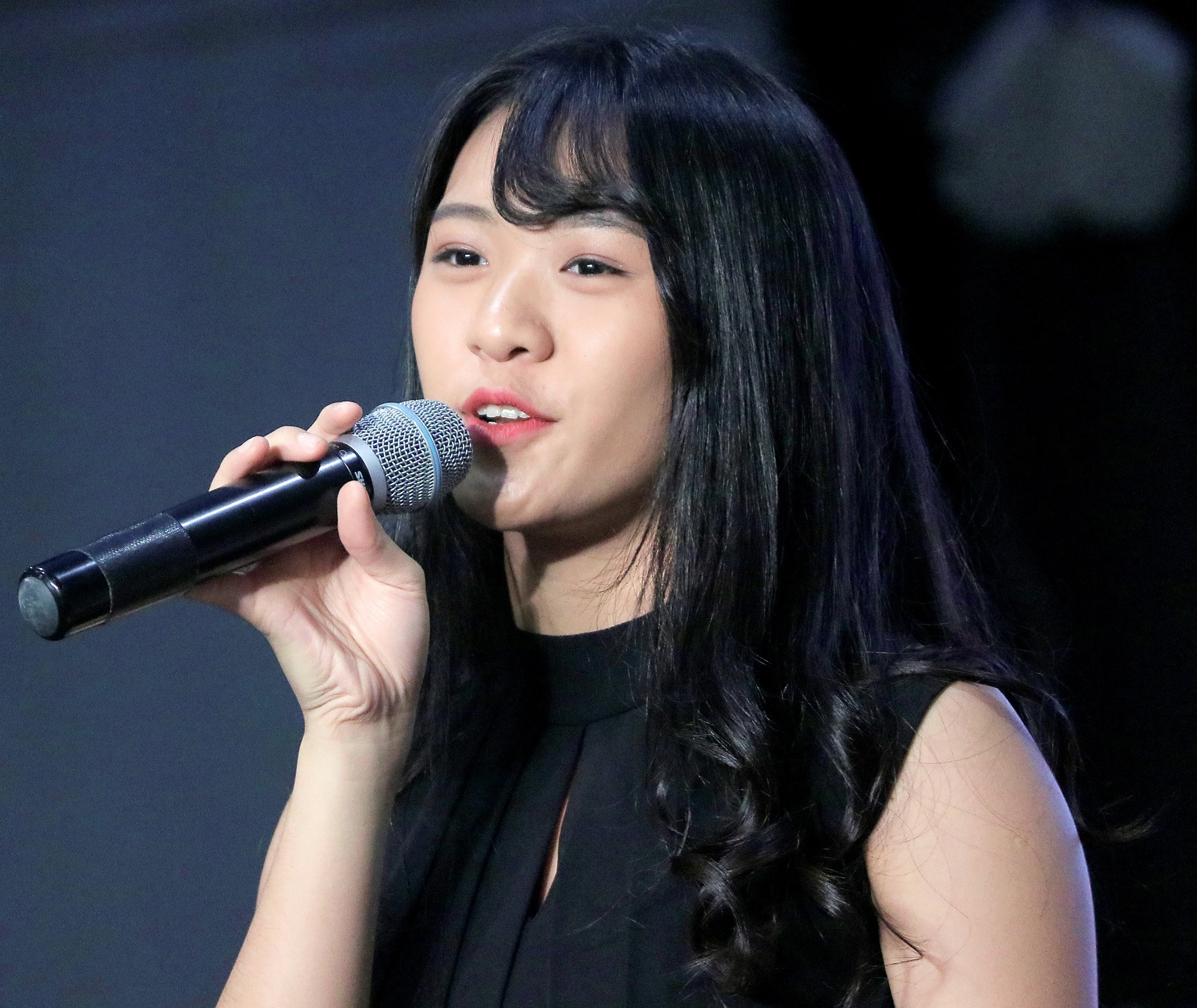 Tan Zhi Hui Celine (Celine) stage activity at JKT48 Joy Kick Tears Handshake Festival Surabaya.